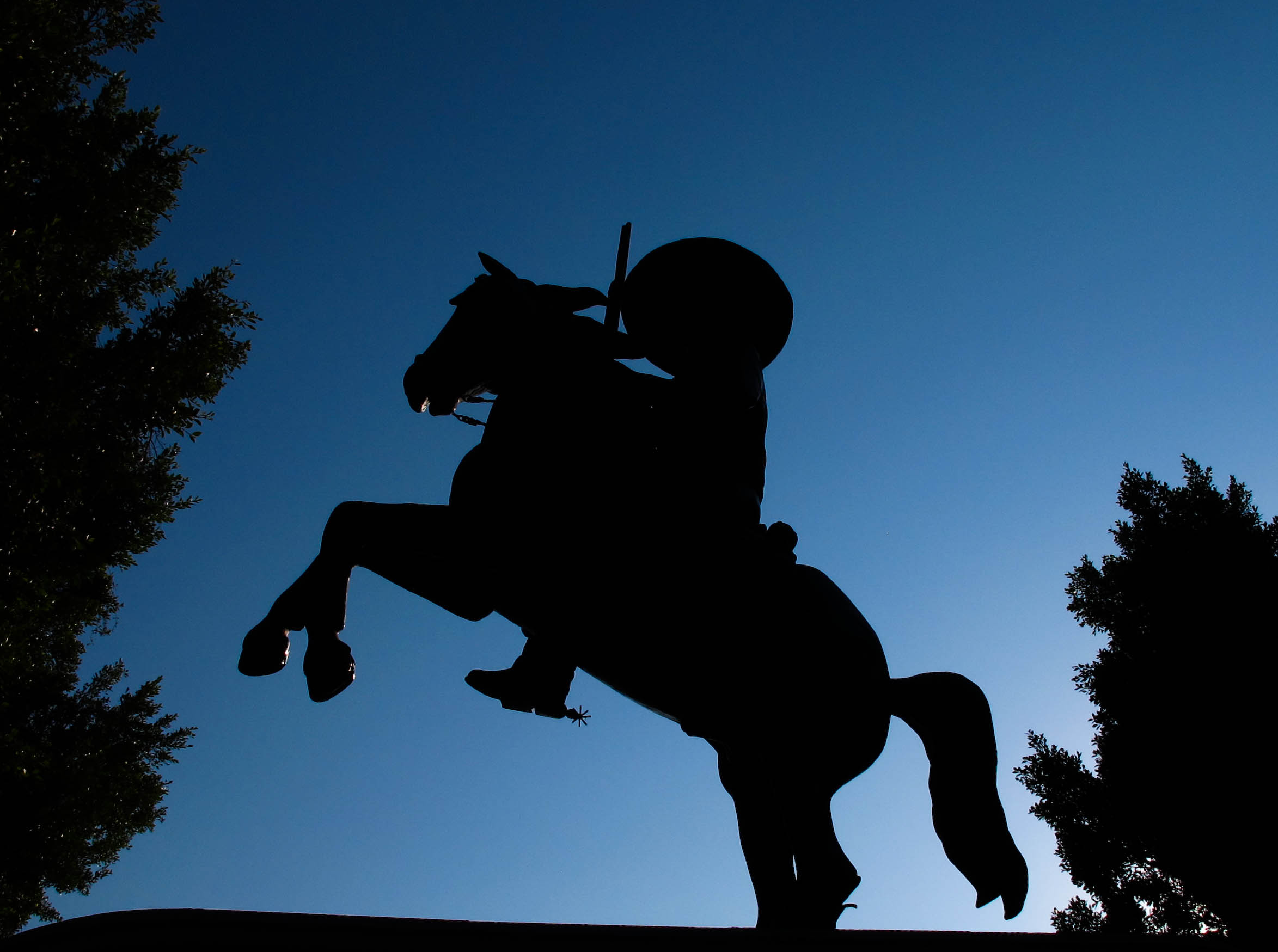 Emiliano Zapata at Plaza de Armas Cuernavaca, Morelos